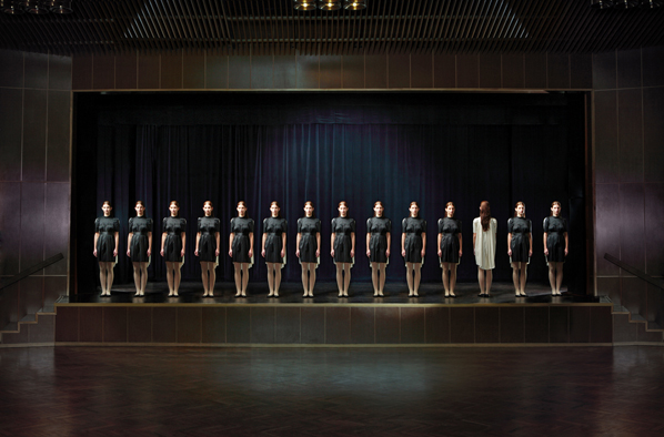 Work of Czech photographer Tereza Vlčková